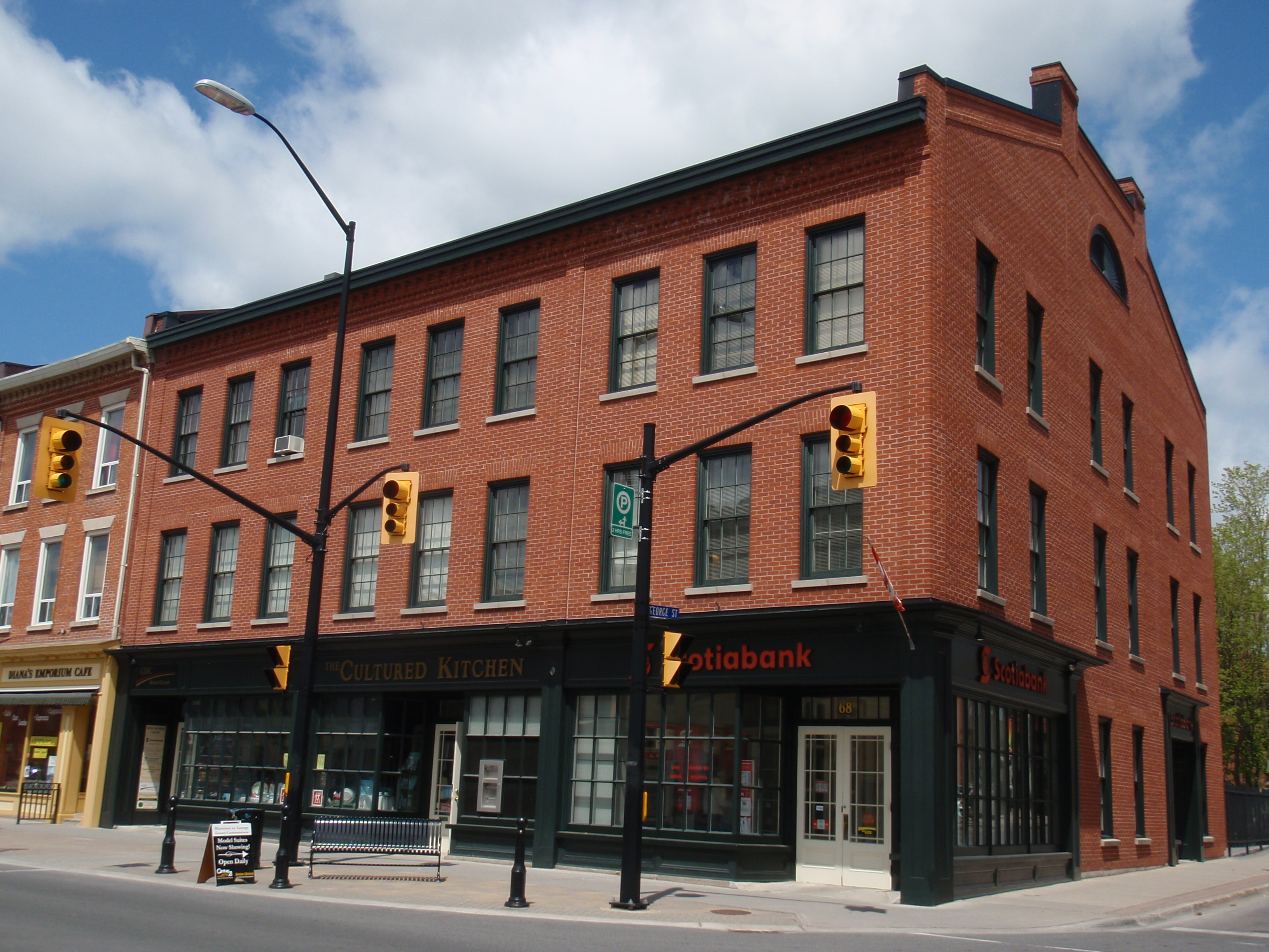 cobourg